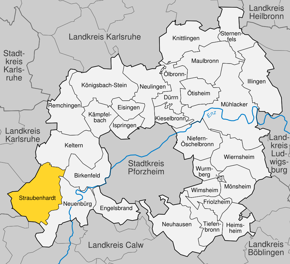 position of Straubenhardt within distict of Enzkreis, Baden-Württemberg, Germany